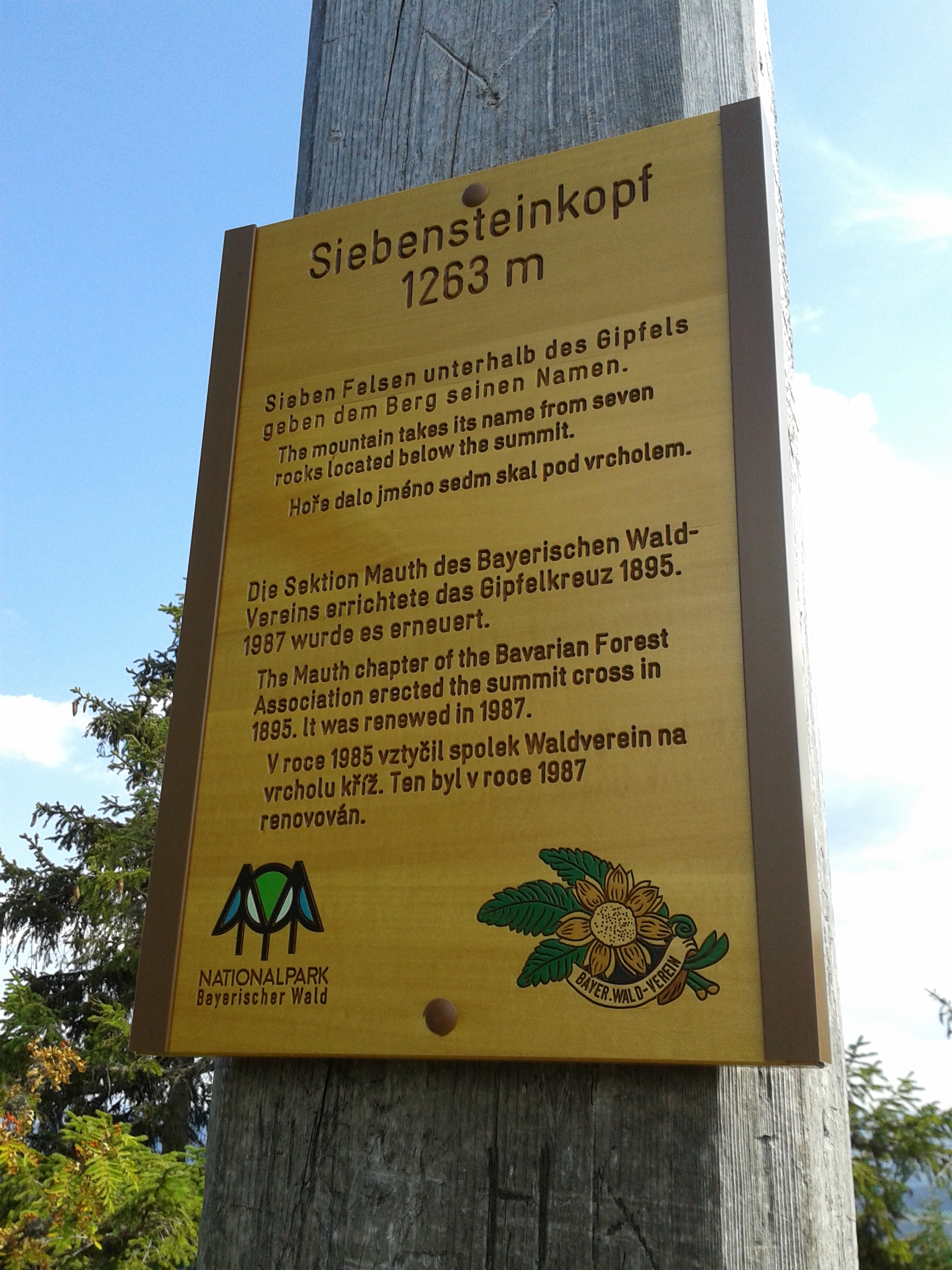 Information board at the summit cross on the 1263 m high peak Siebensteinkopf, near the Czech border in the Bavarian Forest National Park at small town Finsterau.